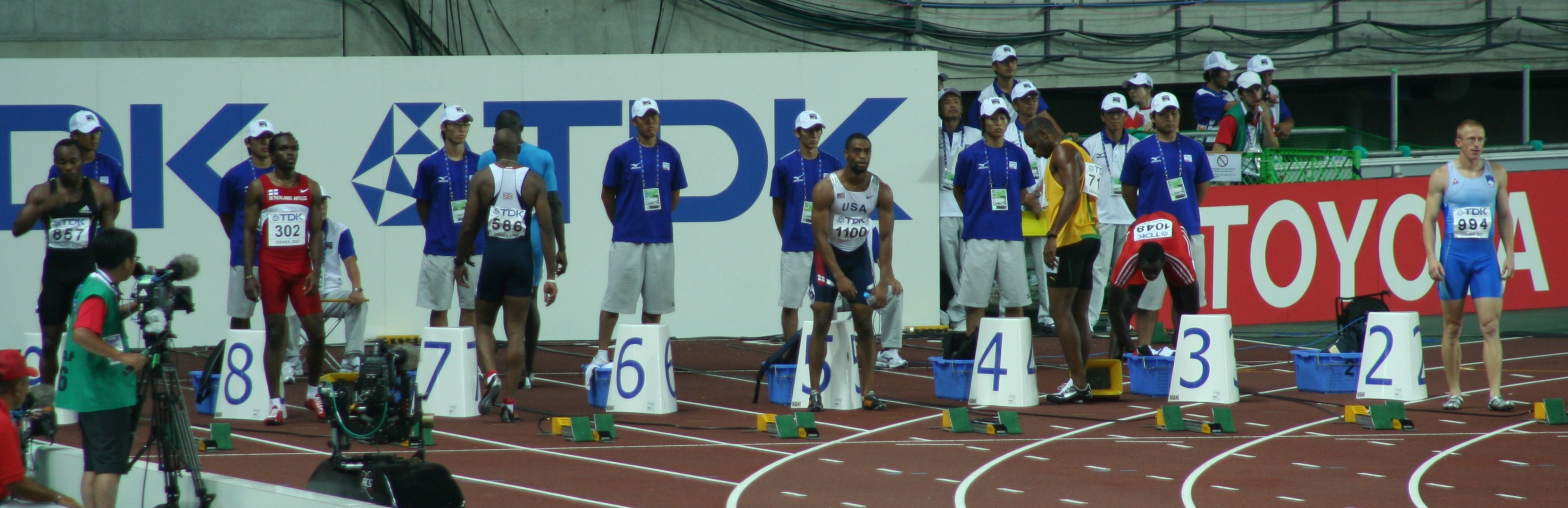 World Athletics Championships 2007 in Osaka - the participants of the Men's 100 metres final preparing for the race: Olusoji A. Fasuba, Churandy Martina, Marlon Devonish, Derrick Atkins, Tyson Gay, Asafa Powell, Marc Burns, Matic Osovnikar